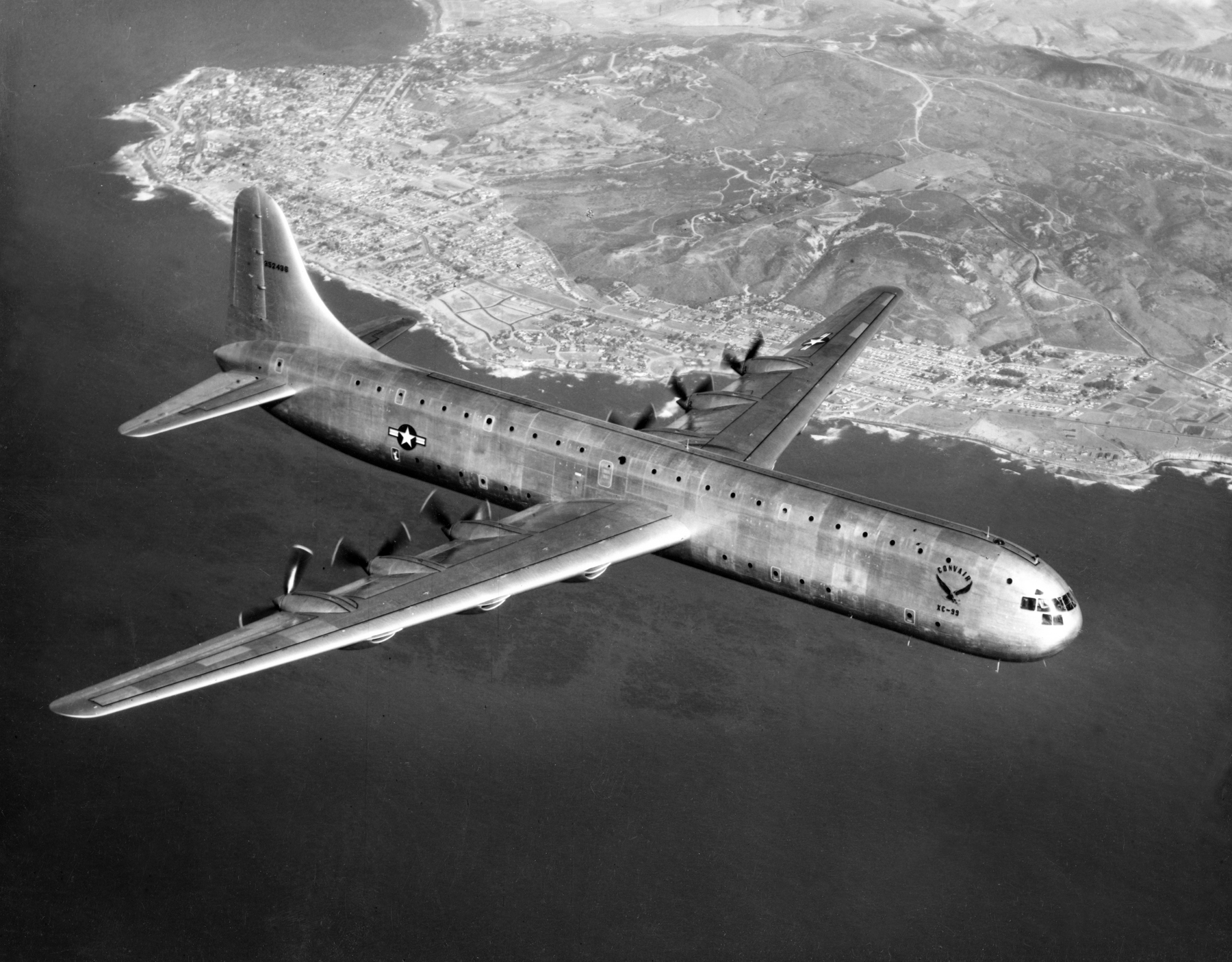 The single U.S. Air Force Convair XC-99 (s/n 43-52436) in flight near La Jolla, California, a prototype heavy cargo aircraft, which first flew on 23 November 1947.